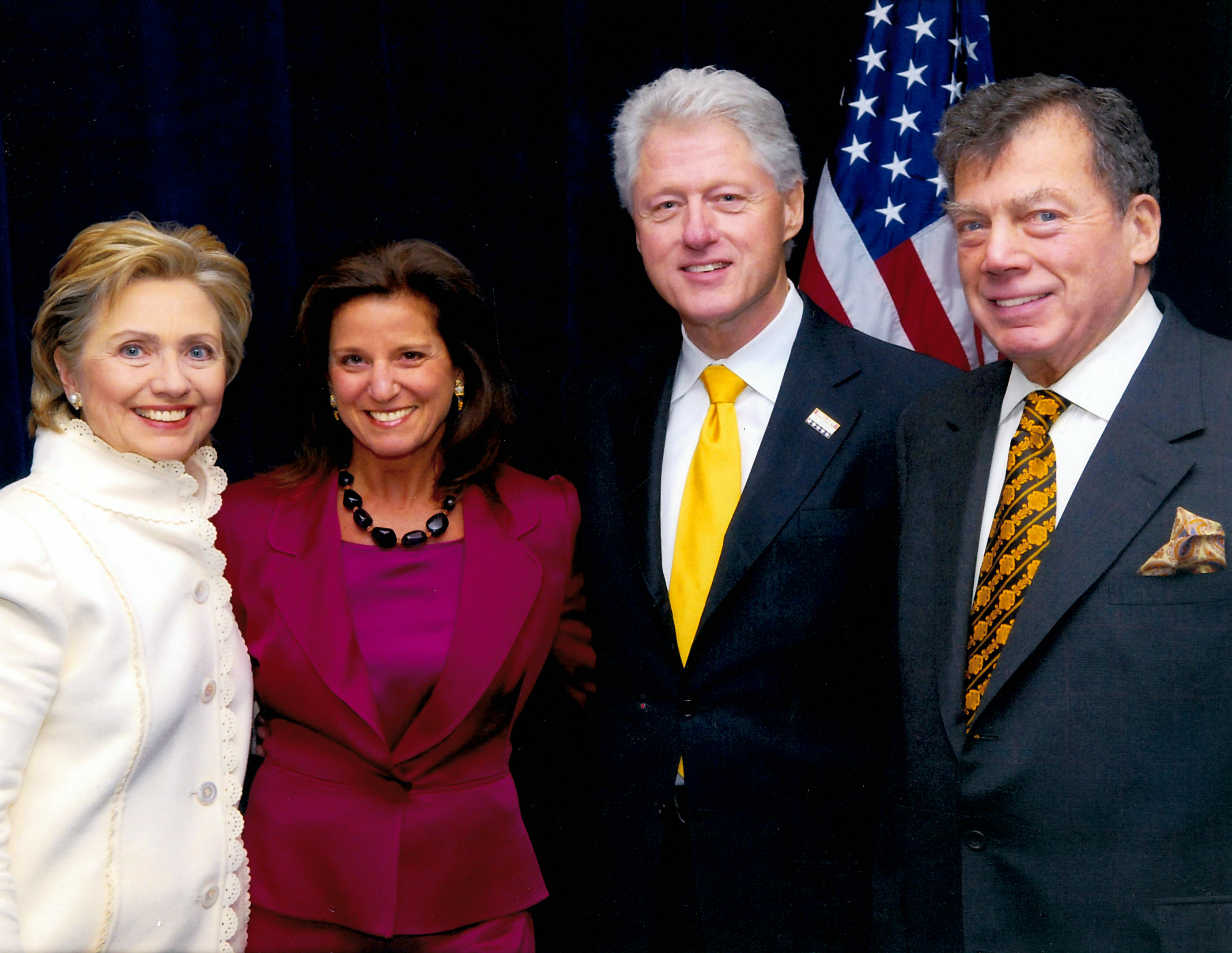 Edgar M. Bronfman receives the Presidential Medal of Freedom of President Bill Clinton